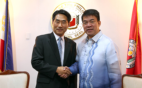 Senate President Aquilino “Koko” L. Pimentel III receives His Excellency Kim Jae-Shin, Ambassador of the Republic of Korea to the Philippines, during a courtesy call at the Senate of the Philippines on 10 August 2016. Ambassador Kim congratulated the Senate President on his election and expressed his country’s desire to expand its bilateral relations with the Philippines. The Senate President, likewise, thanked the Ambassador for South Korea’s support for the Philippines’ new leadership and for continuing its partnership in the country’s over-all development. Pimentel also expressed his interest to learn from South Korea’s experiences specially in rural development.